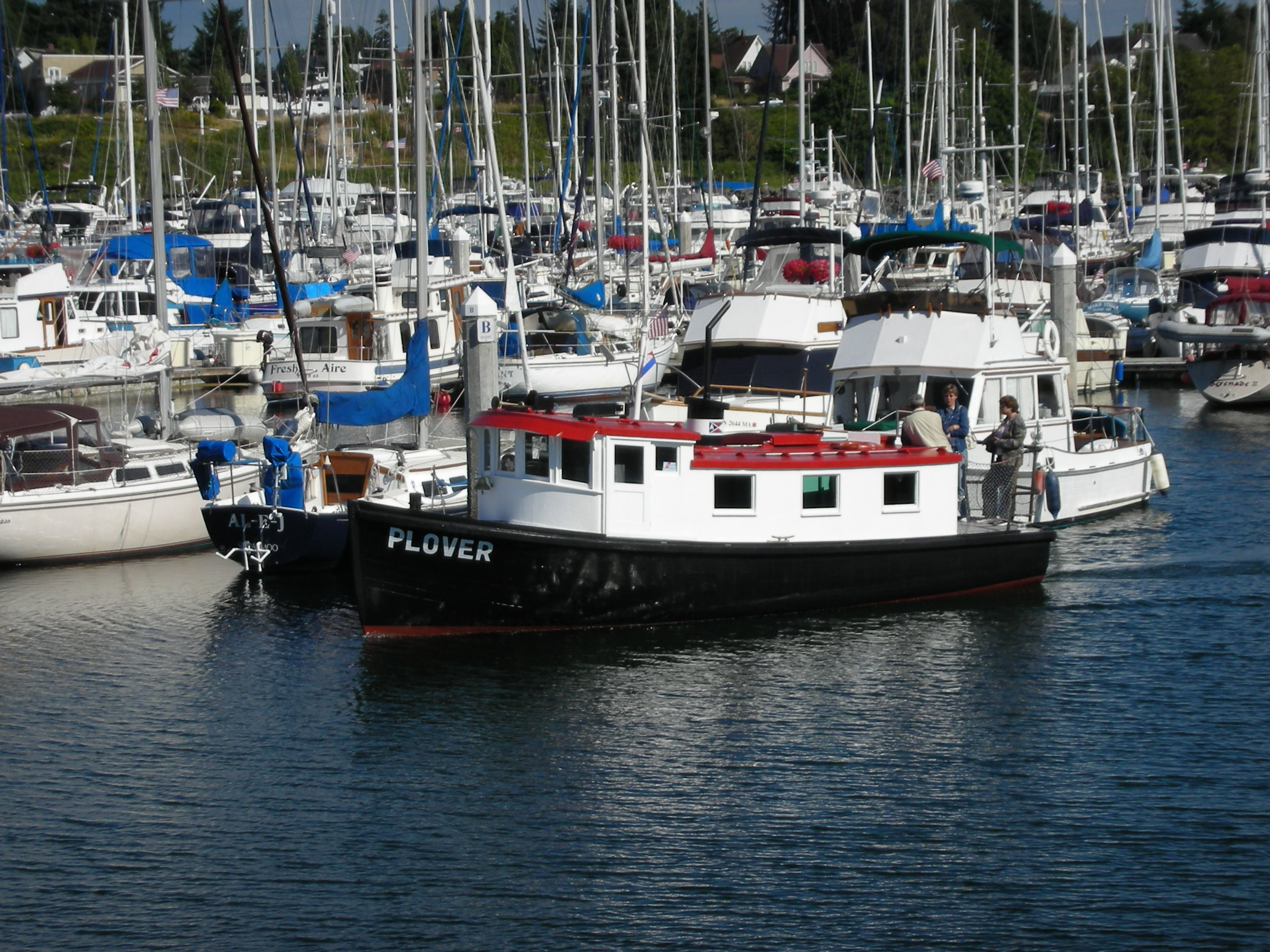 Ferry, started in the 1930s to transport cannery workers, between Semiahmoo spit and Blaine, WA